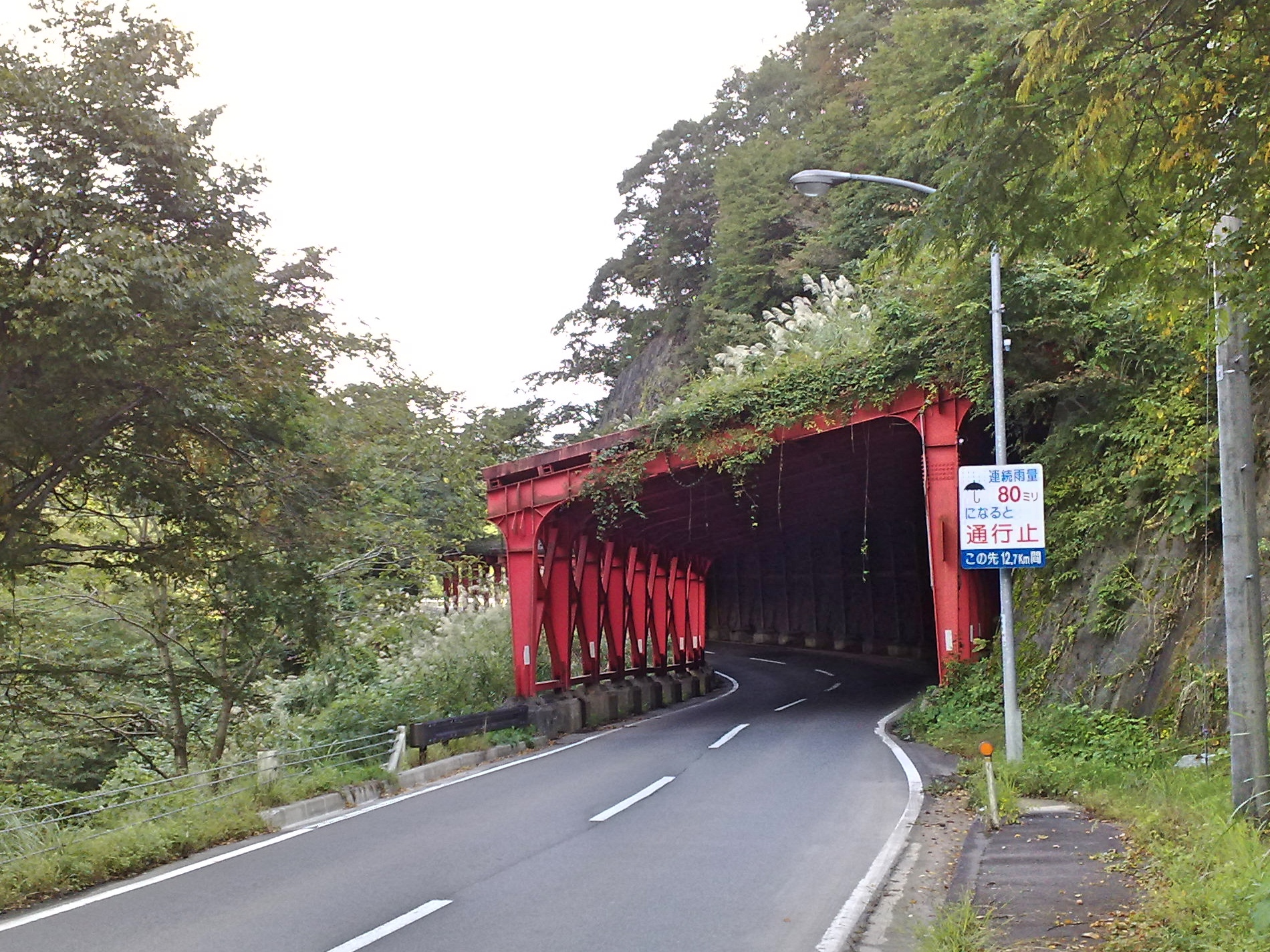 Rock shed on Niigata Prefectural Road Route 24, Nagaoka, Niigata Prefecture, Japan